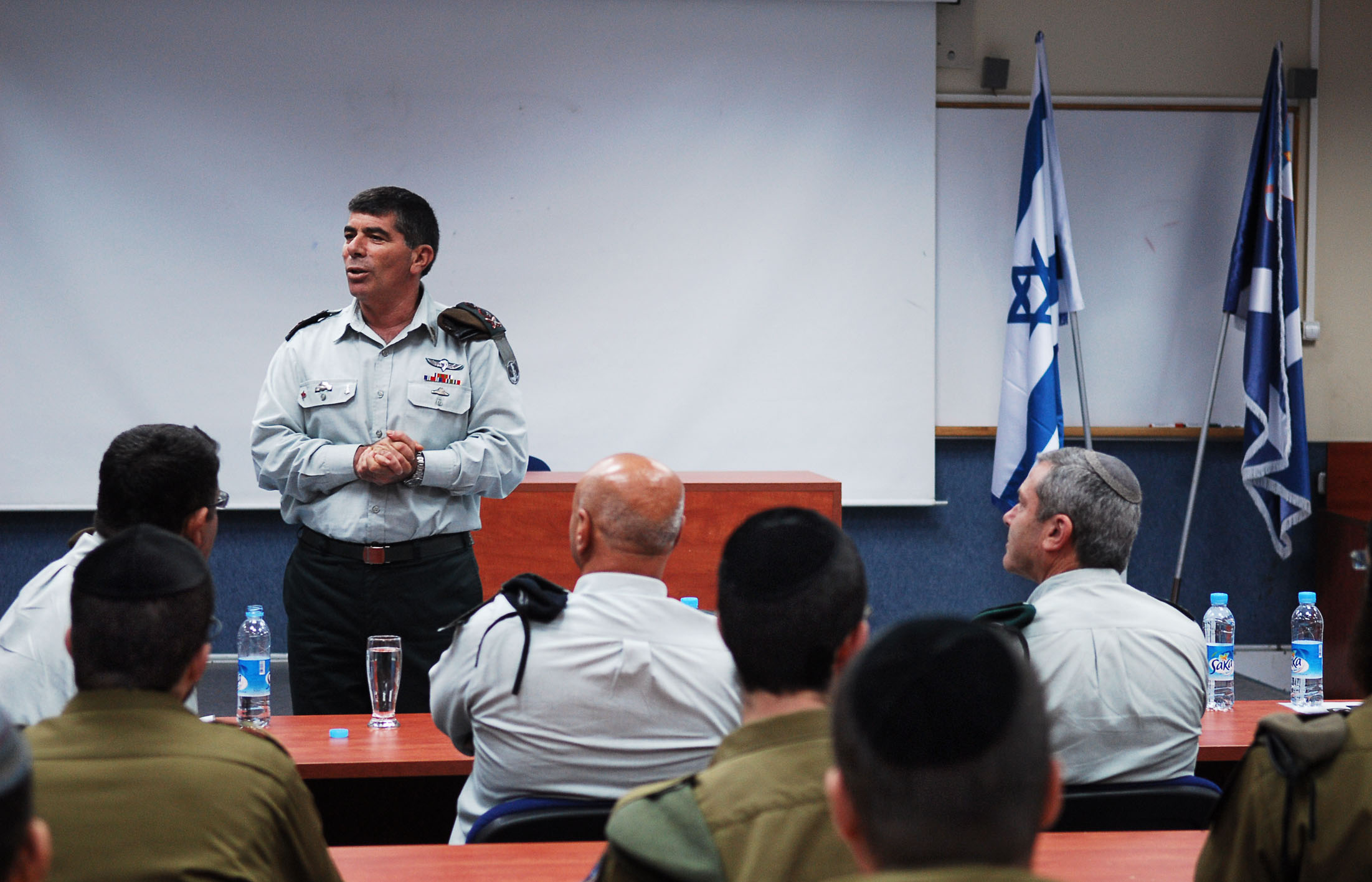 September 9, 2010. “As the Chief of the General Staff, I am extremely proud to see you fitting in to naturally and with such success in key positions throughout the leading technological units in the IDF. The integration of Ultra-Orthodox soldiers in the Air Force, Navy, Ground Forces, Intelligence and C4I units is a success story which we must continue and develop as much as we can.” Thus said the Chief of the General Staff, Lt. Gen. Gabi Ashkenazi , to the Ultra-Orthodox soldiers who graduated from the programming course, whom he met during a visit to the IDF School of Computing. For more details: dover.idf.il/IDF/English/News/today/10/09/2203.htm The Israel Defense Forces Facebook • blog • Twitter